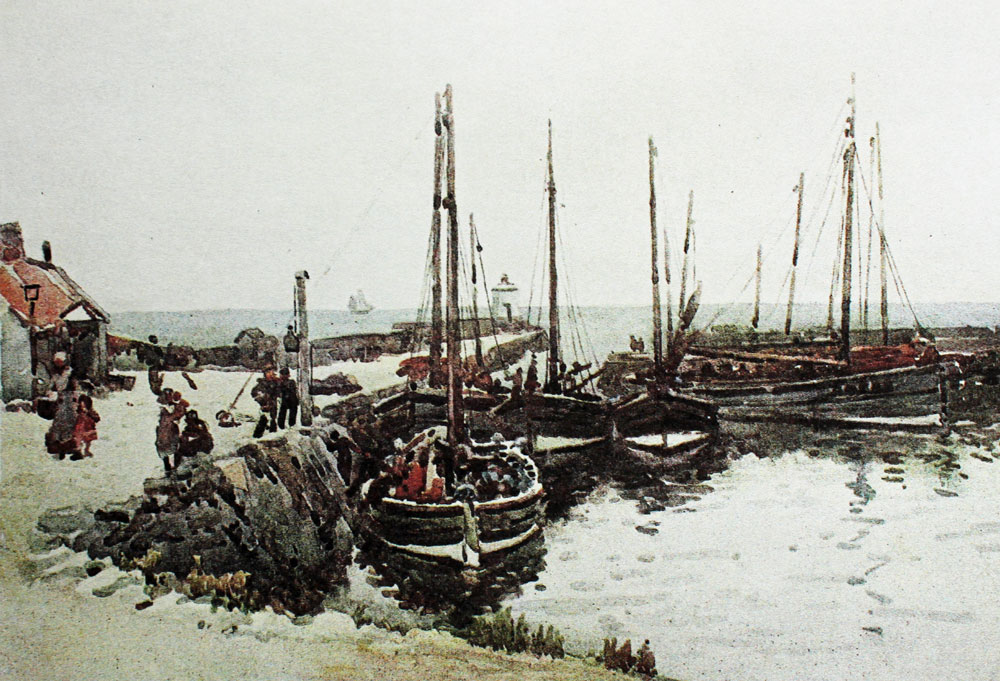 reproduction of water-colour painting of Scottish harbour - Rosehearty